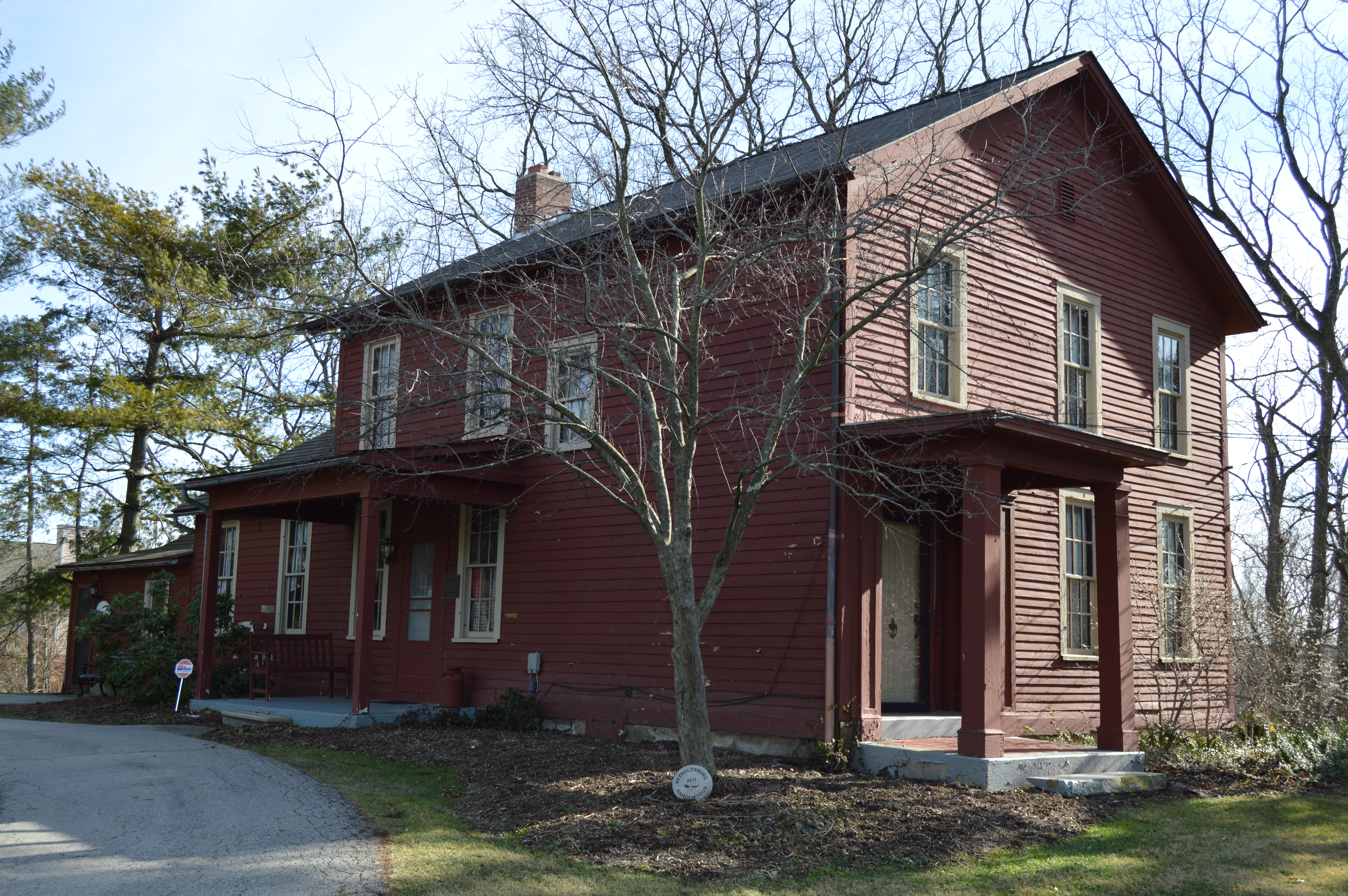 Northern side and front of the Alexander W. Livingston House, located at 1792 Graham Road in Reynoldsburg, Ohio, United States. Now a museum, the house is listed on the National Register of Historic Places.